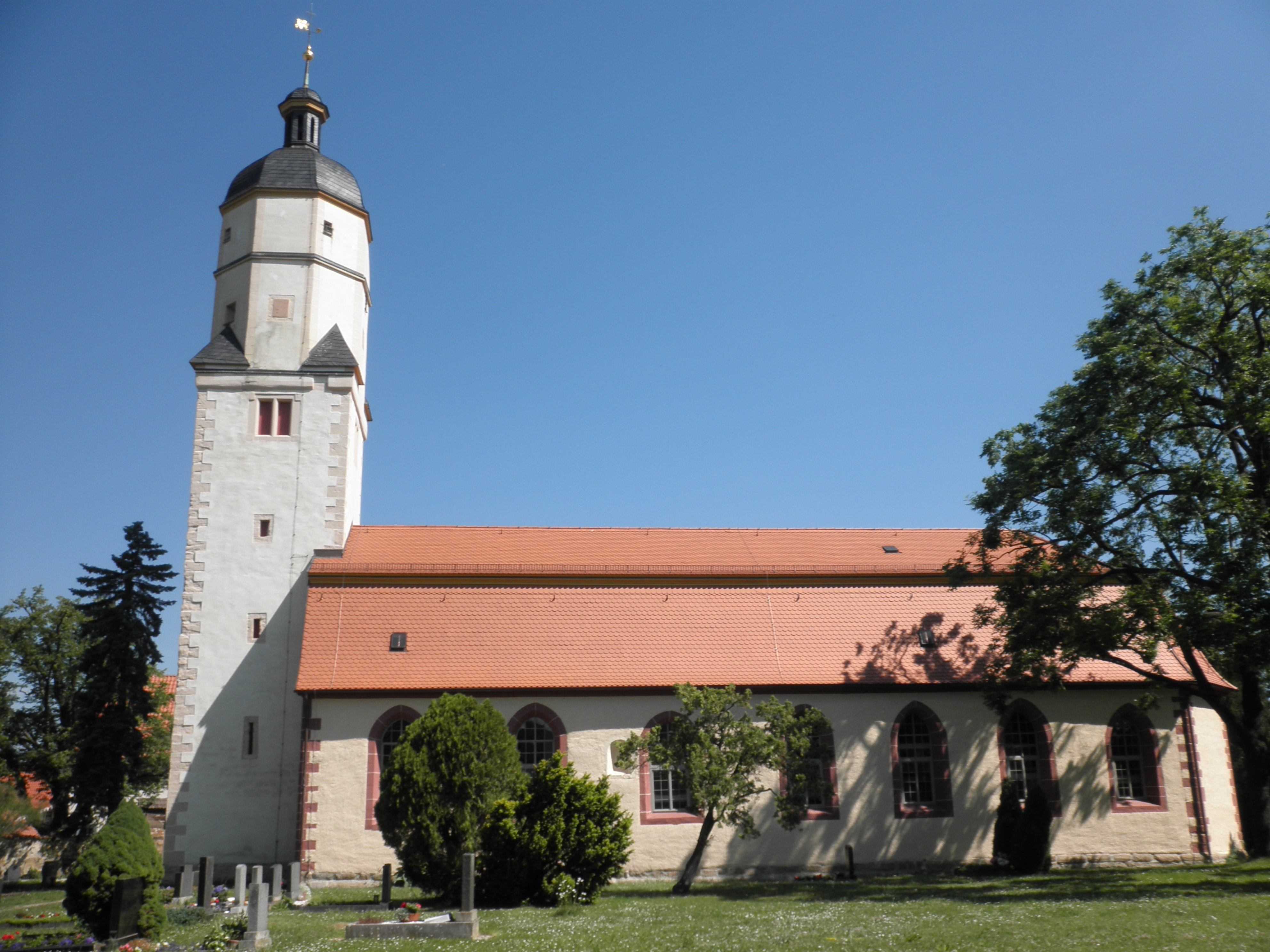 Church in Wandersleben (Thuringia)